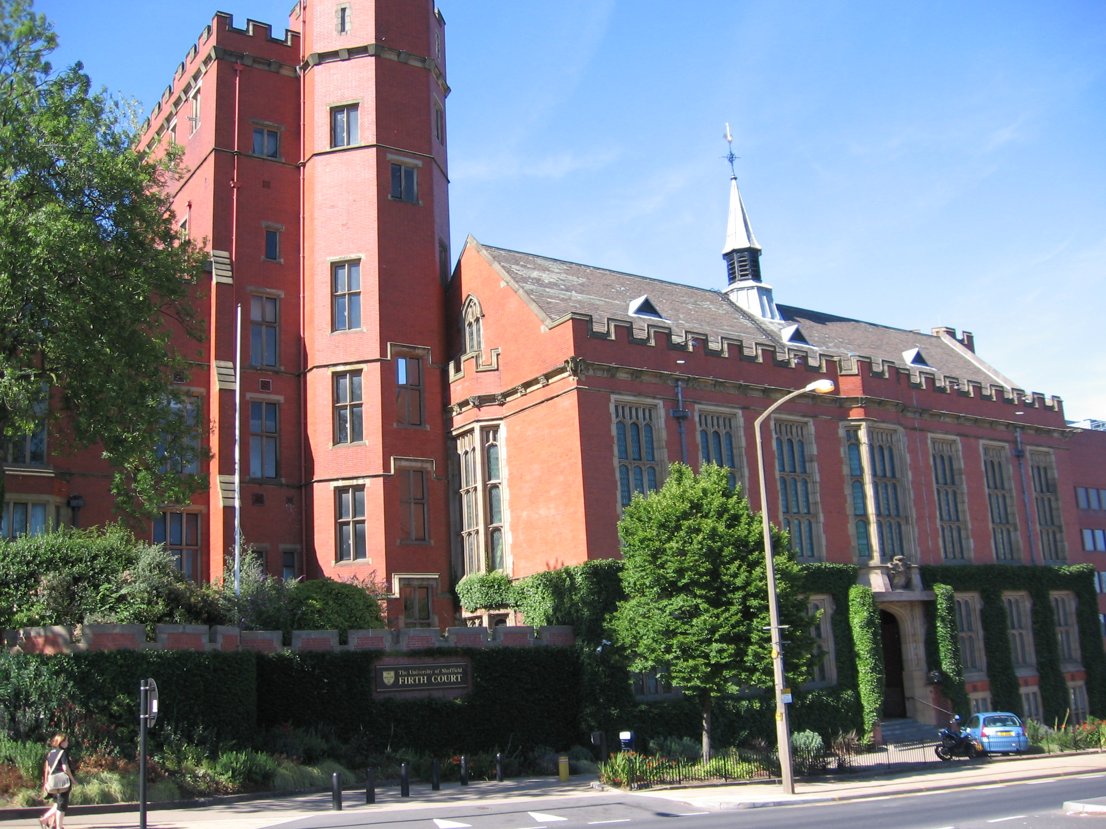 Firth Court, Sheffield Uni